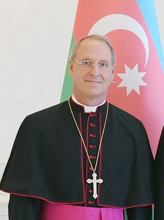 Ilham Aliyev received credentials of Vatican's Apostolic Nuncio